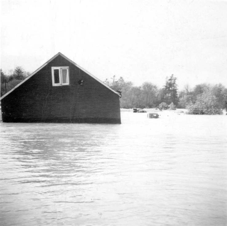 In the aftermath of Hurricane Hazel, this house was possibly floating when the photograph was taken, altohugh the pictures seem to show that it is grounded. Either way, it had floated from further upstream on the Humber River. This photo was taken a couple of kilometers north of Raymore Drive, where the street of houses was washed away with a large loss of life.